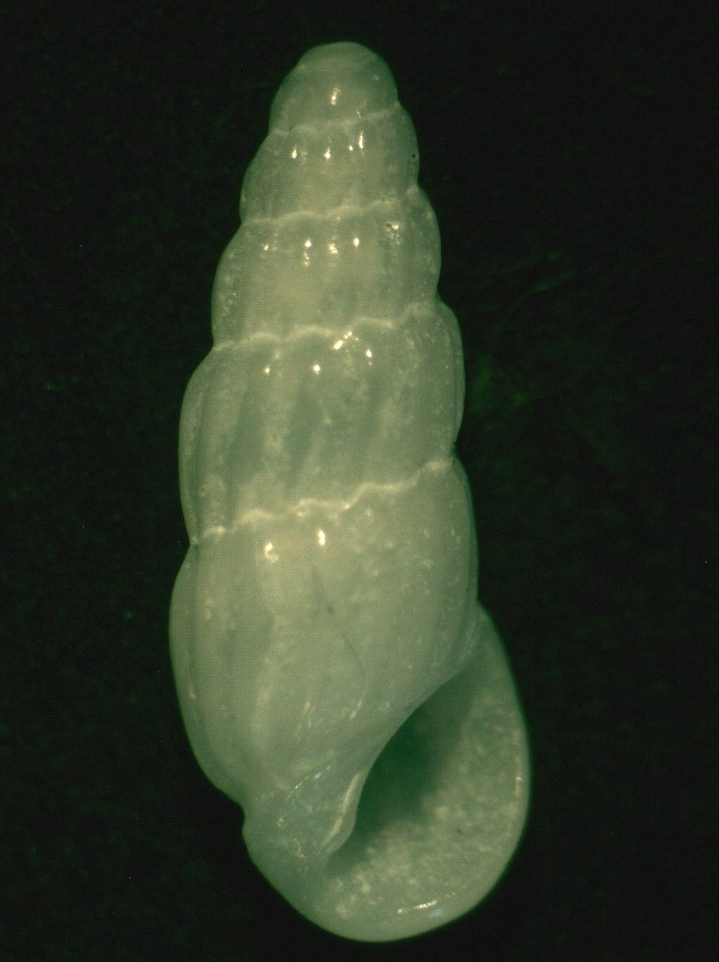 Rissoina crassa G. F. Angas, 1871, a sea snail from the family Rissoinidae; South Australia